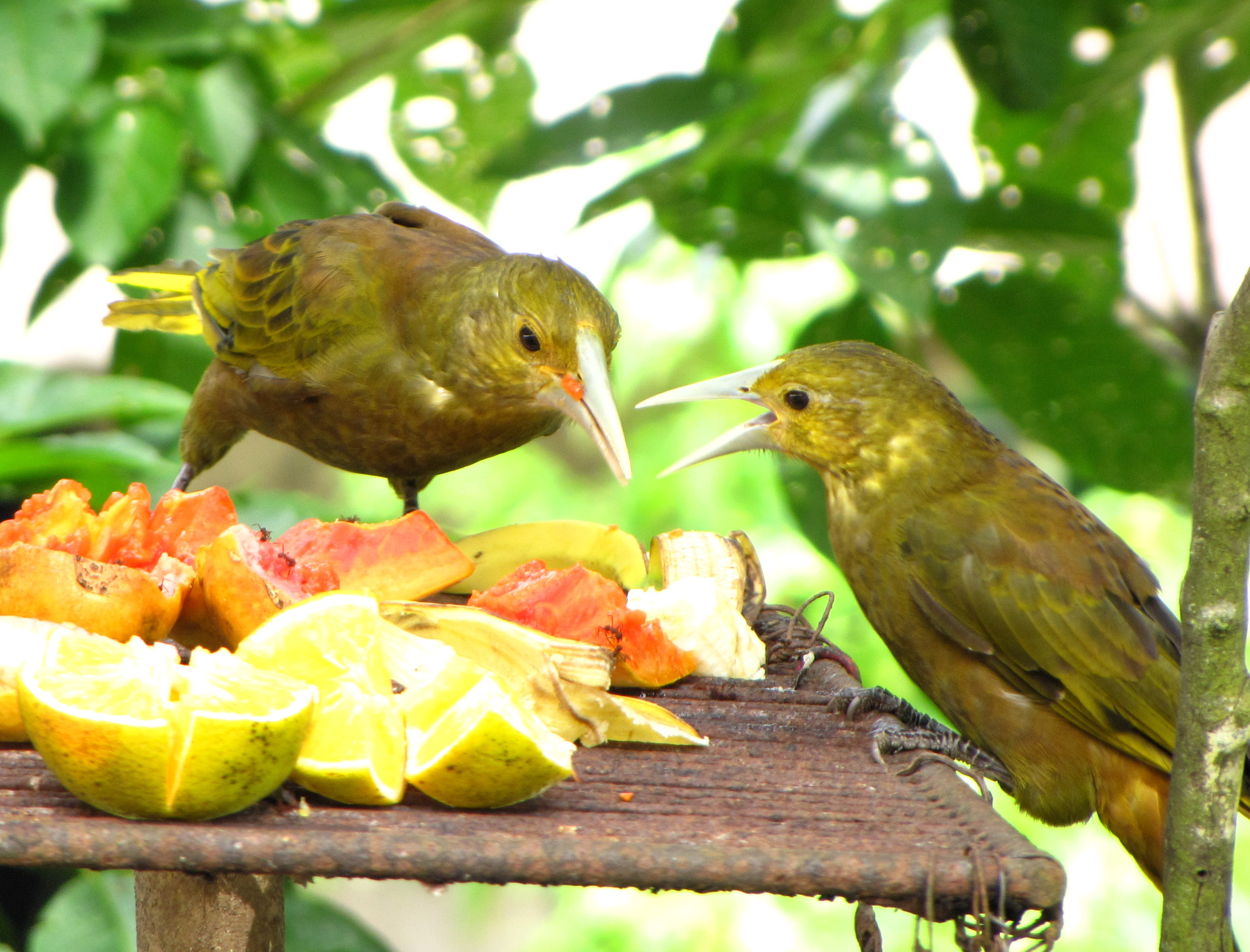 Russet-backed Oropendolas at Rancho Grande Biological Station, Henri Pittier National Park, Aragua State, Venezuela.